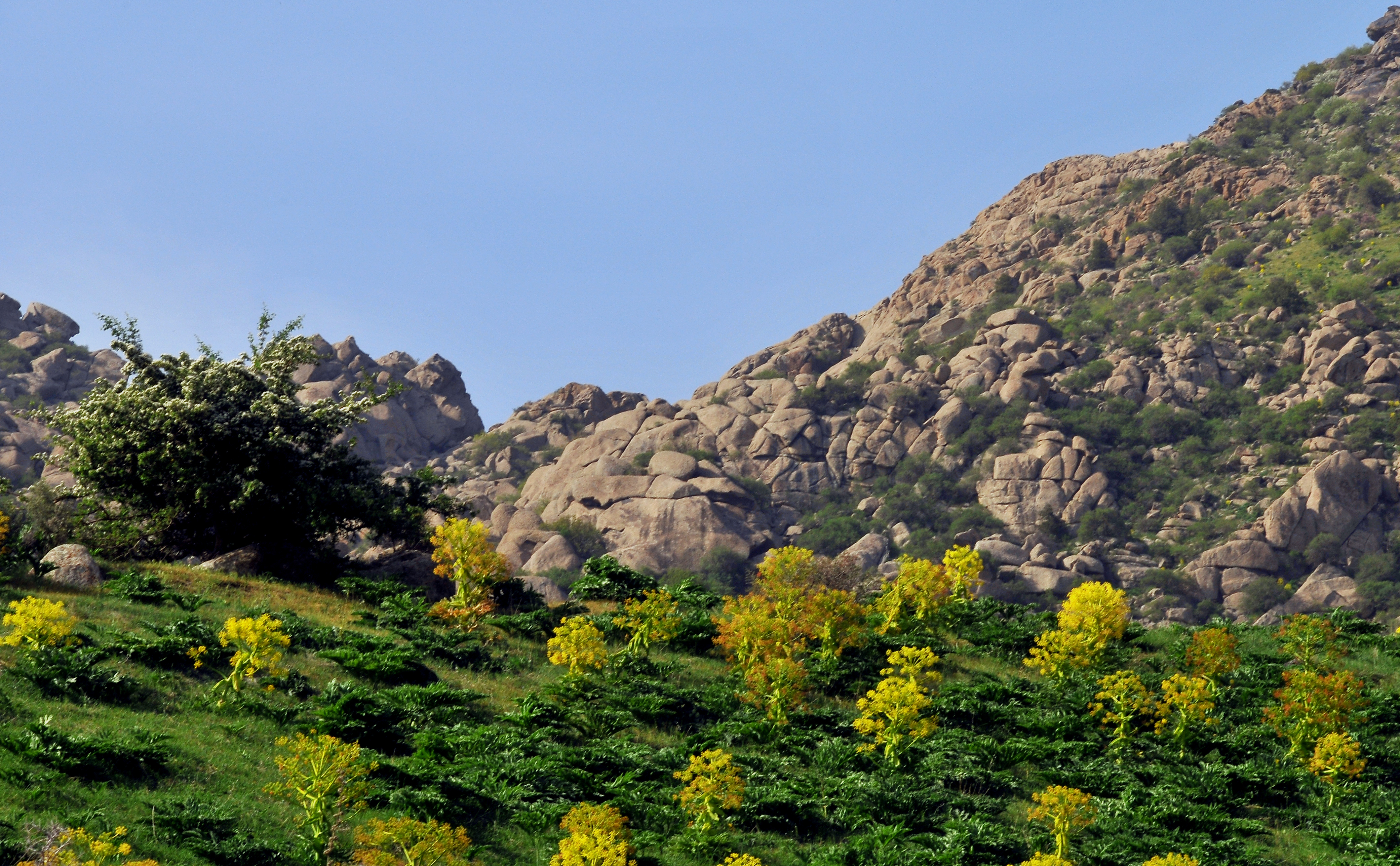 Flowering wild rhubarb; Zarafshan Range granitic foothill, in route to Takhta-Karacha Pass. Qashqadaryo Region, Uzbekistan